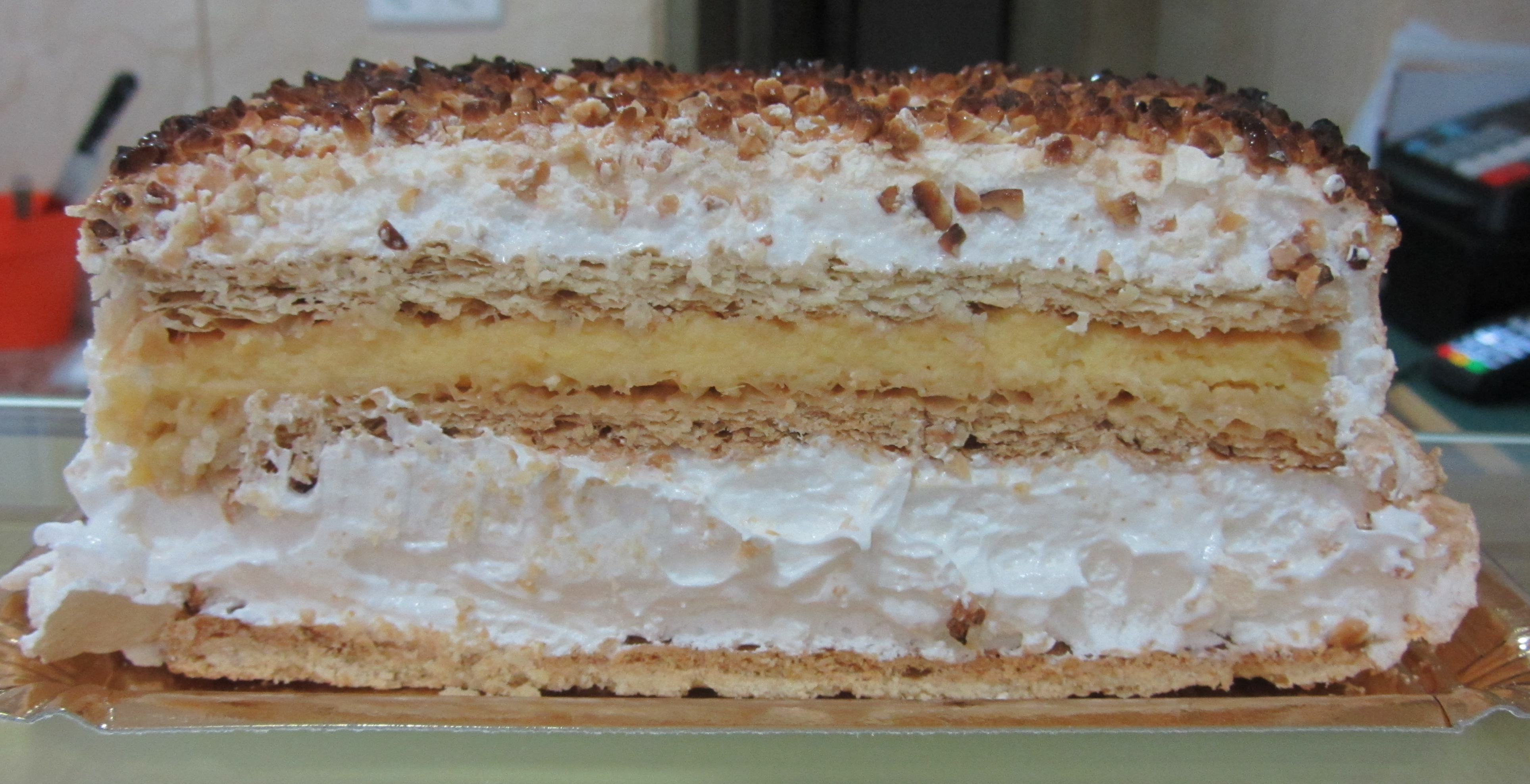 "Costrada" typical dessert of Alcalá de Henares (Community of Madrid - Spain). Helping.